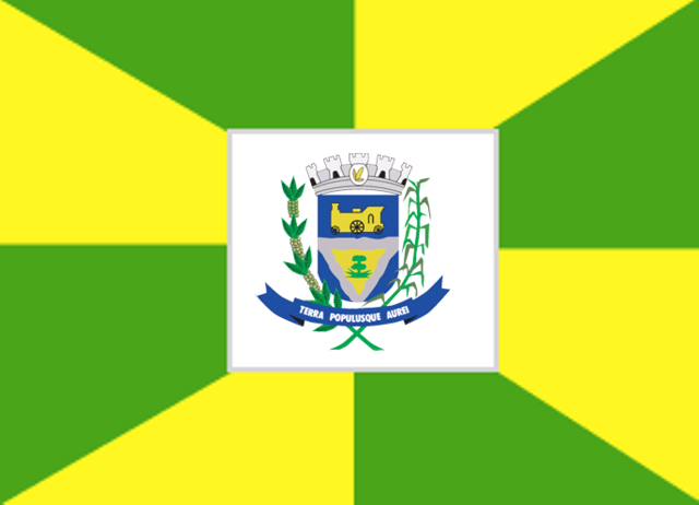 Flag of Ourinhos, São Paulo, Brazil.